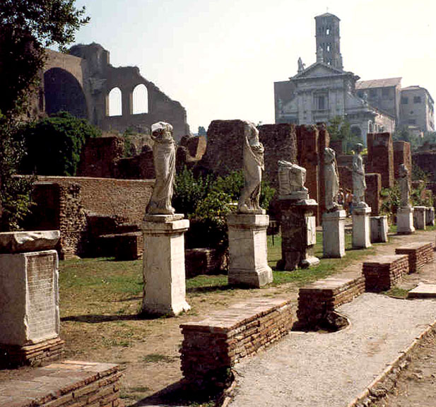 Statues in the House of the Vestal Virgins, Forum, Rome